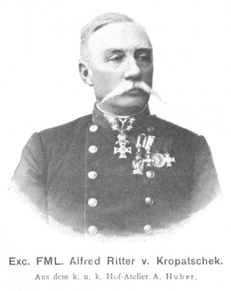 Portrait of Alfred von Kropatschek (1838-1911), Austrian general and weapons designer